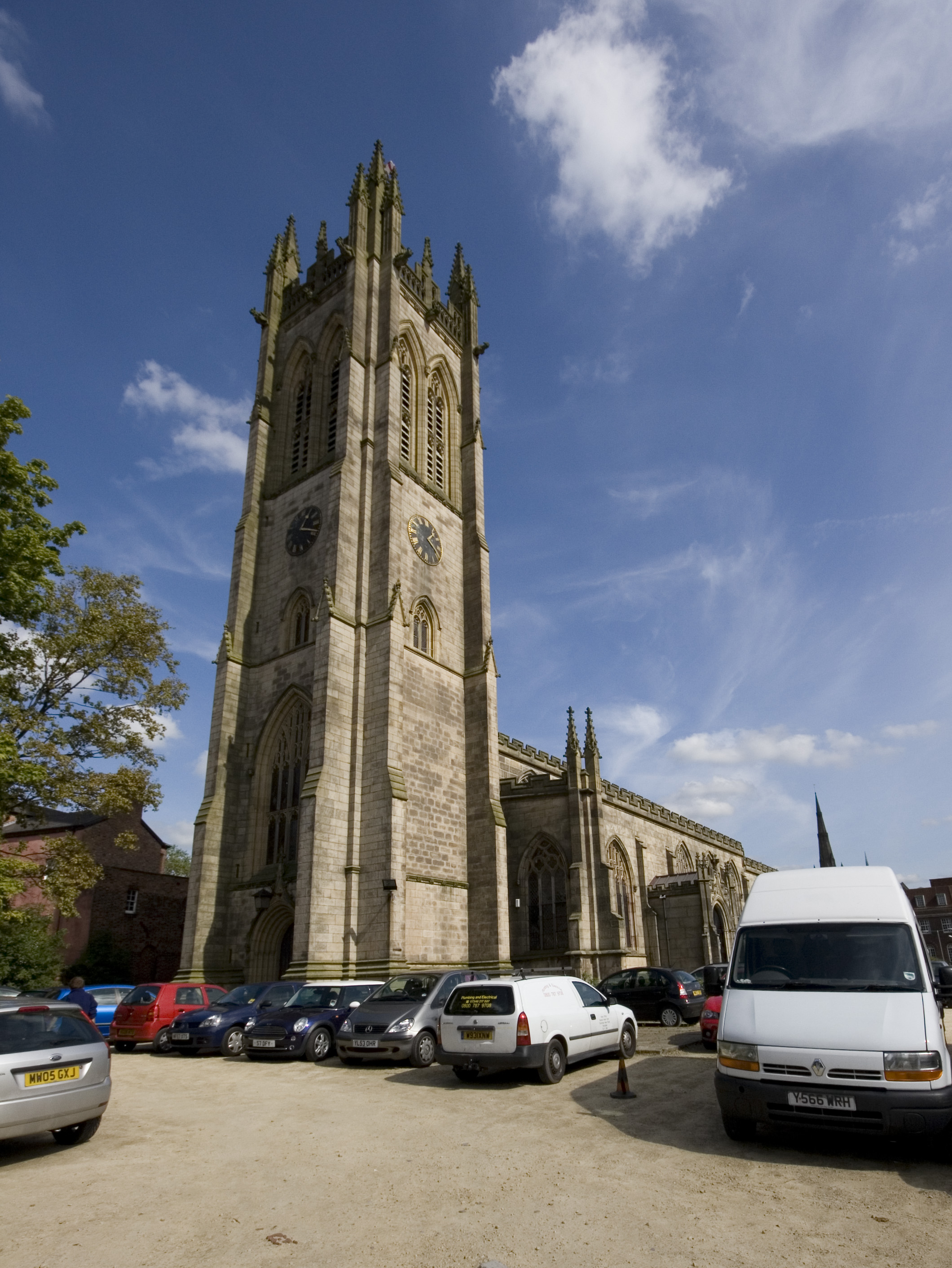 Parish church of St Michael and All Angels, Ashton-under-Lyne, Greater Manchester, seen from the southwest. Part of the churchyard is now a privately-run car park.